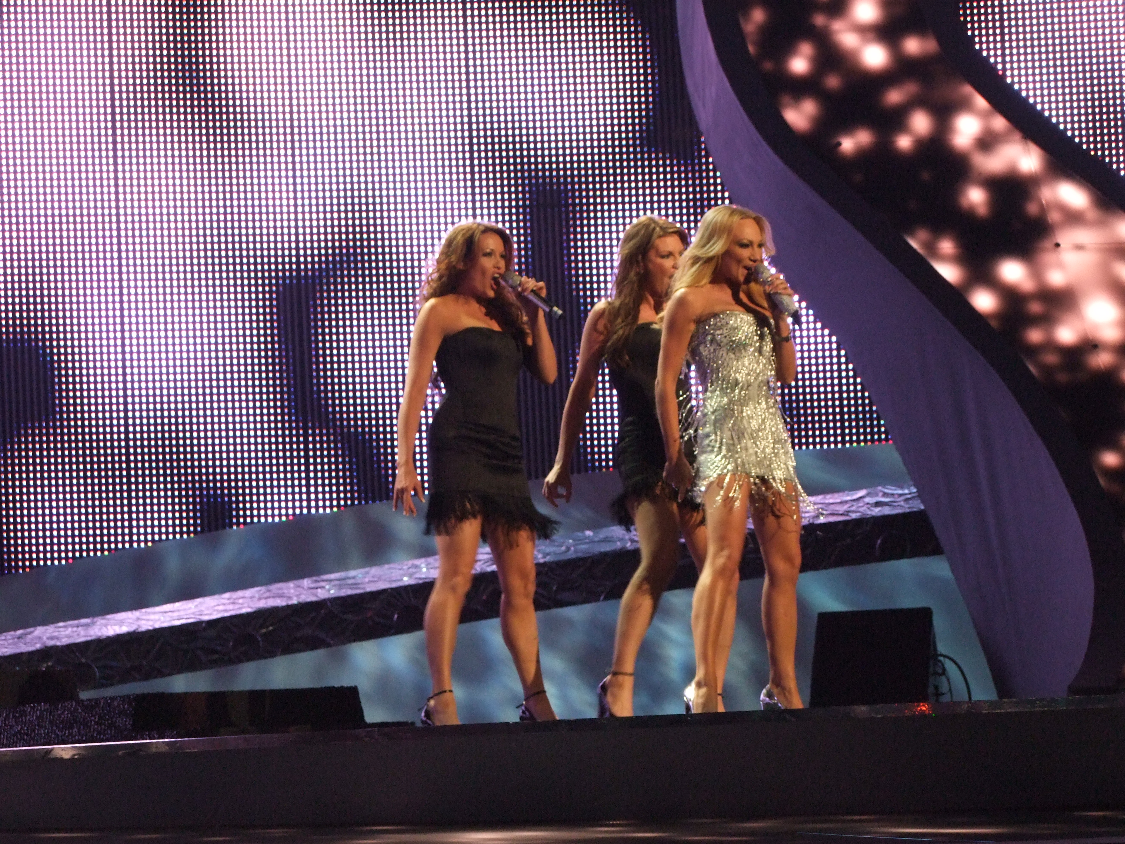 Eurovision Song Contest 2008, 2nd semifinal Sweden: Charlotte Perrelli (on the left: Background singer Dea Norberg)